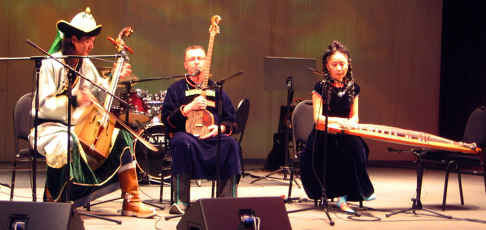 Moscow-based traditional Buryat-Mongolian group Namgar play en trio (smaller version of the ensemble, right to left: Namgar, Ye. Zolotaryov, Erdenebal Javkhlan) in the Moscow House of Music on Nov 13, 2008.